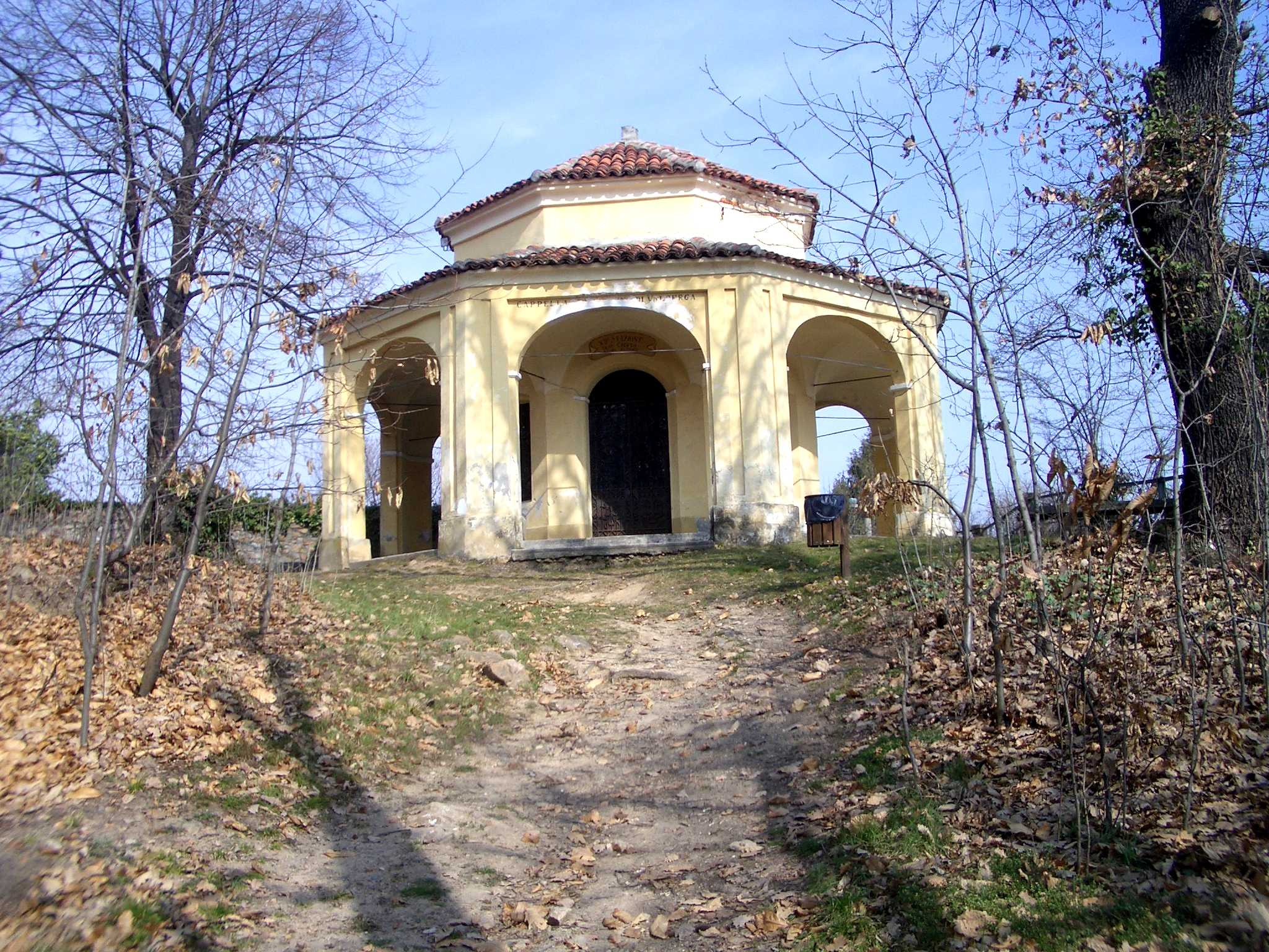 Santuario di Belmonte (Turin, Italy), The Crucifixion chapel